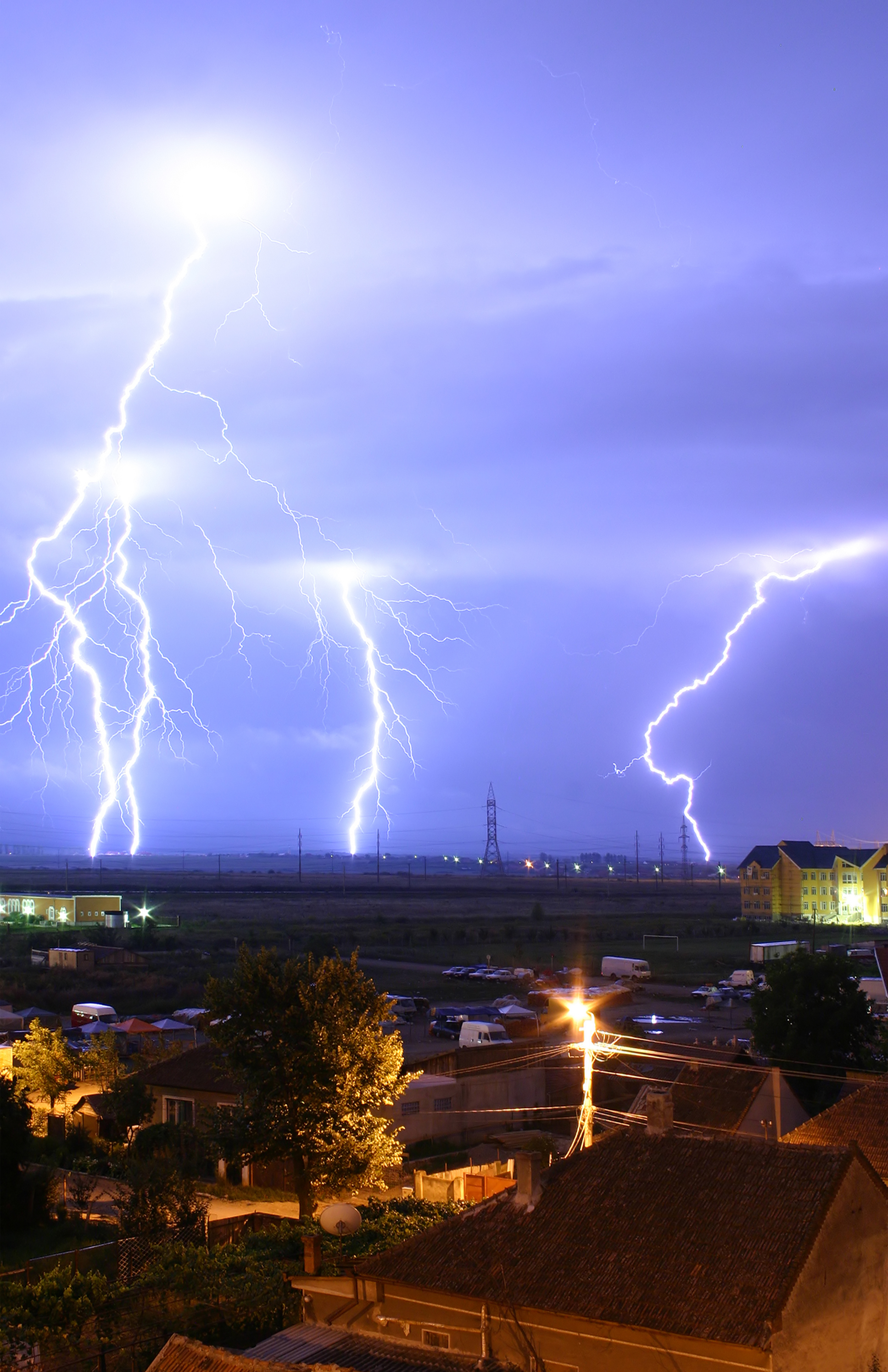 Lightning over the outskirts of Oradea, Romania, during the August 17, 2005 thunderstorm which went on to cause major flash floods over southern Romania.